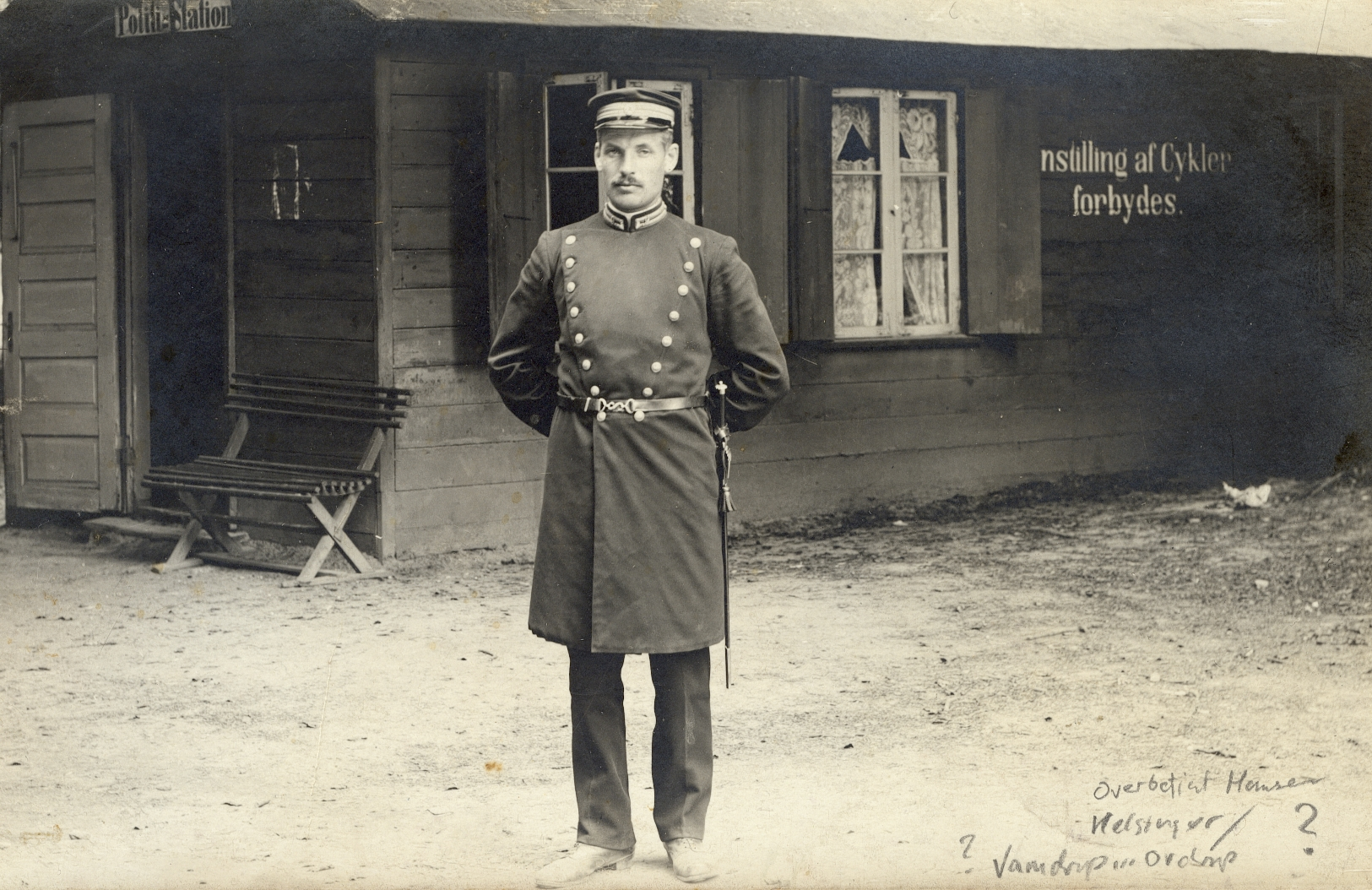 Danish police uniform around year 1900.